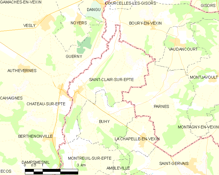 Map of French municipality Saint-Clair-sur-Epte